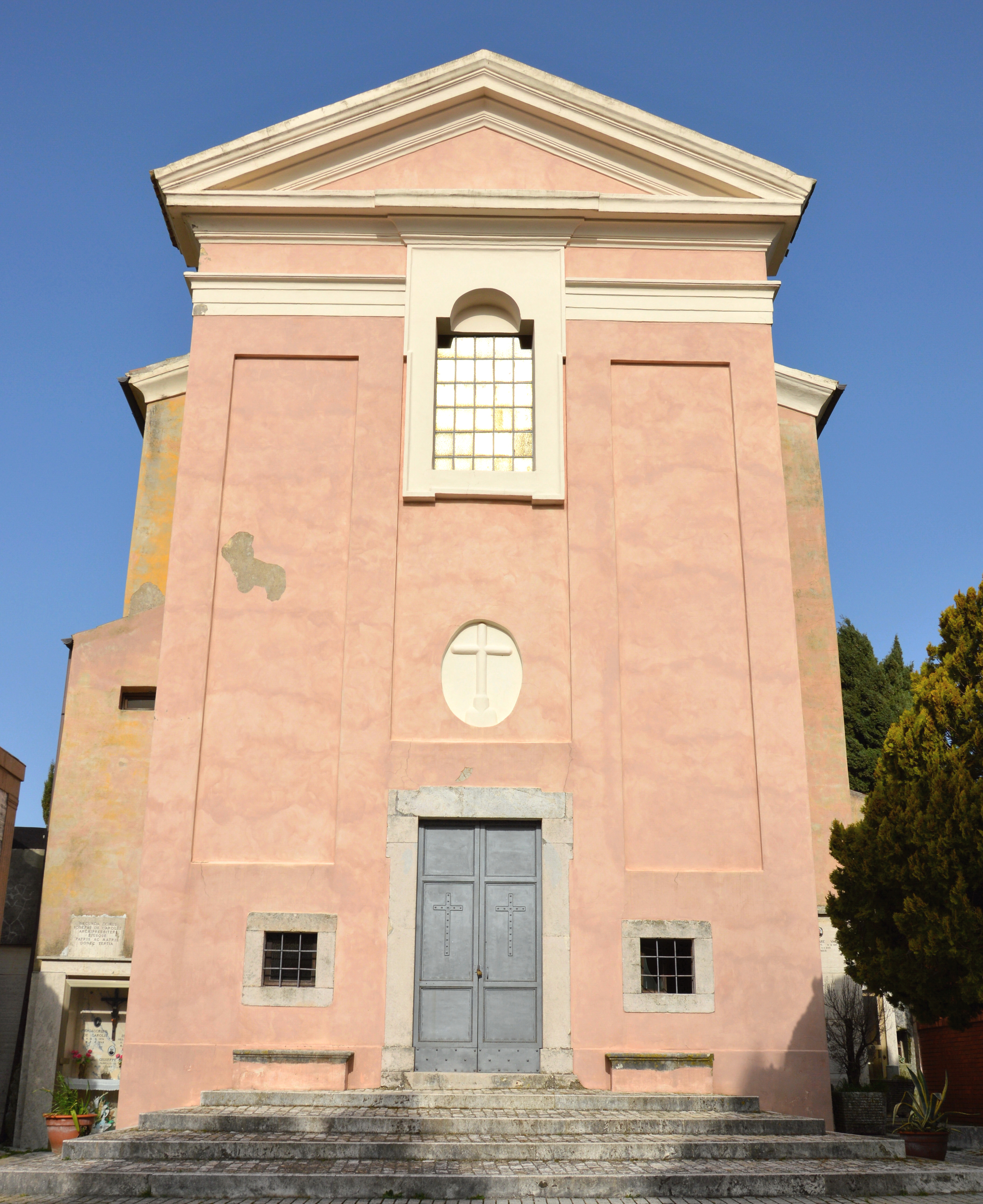 Gavignano (Rm)